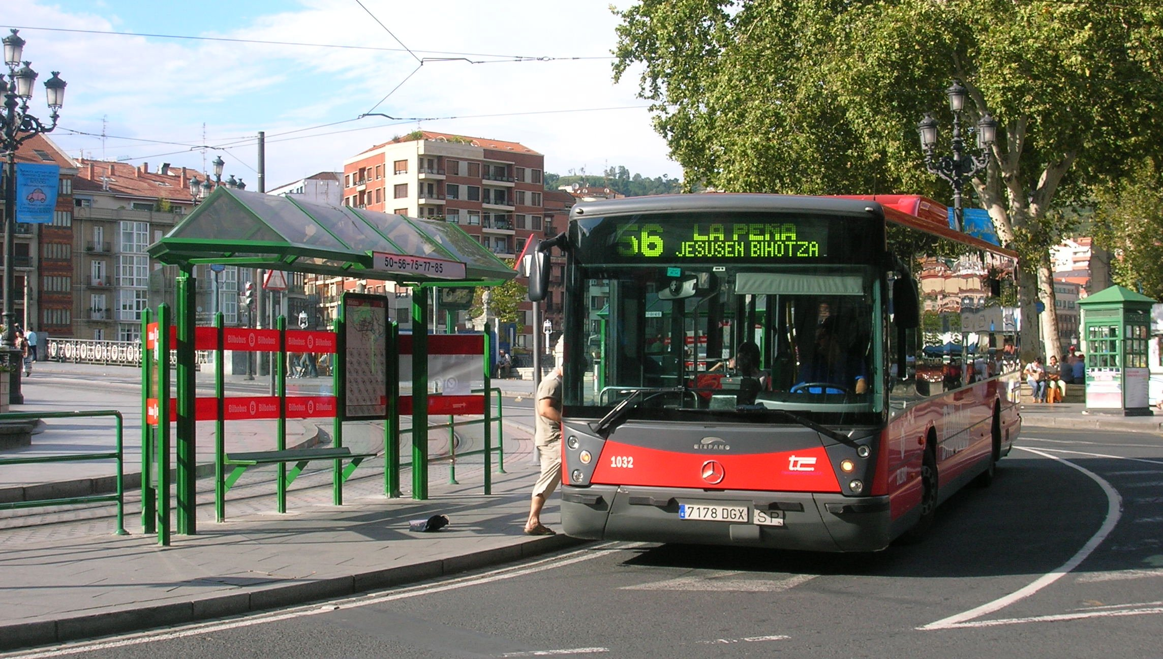 Bilbous stop at Arenal, Bilbao.